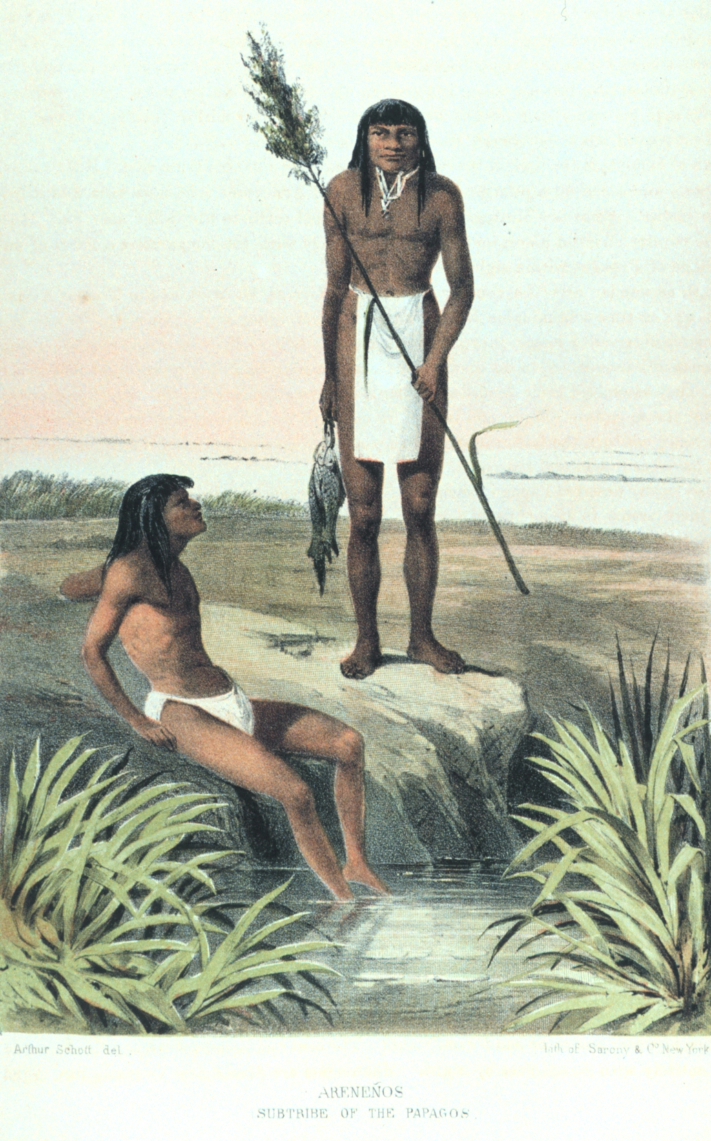 Title: Areneños, subtribe of the Papagos. Lithograph of Tohono O'odham people